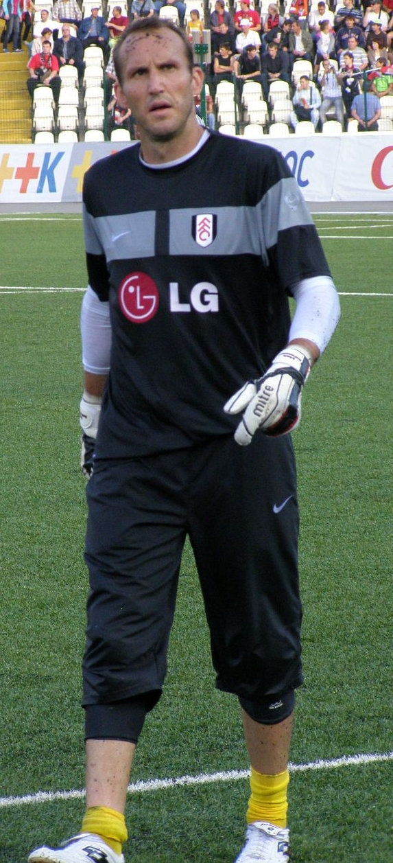 Mark Schwarzer warming up for Fulham F.C.